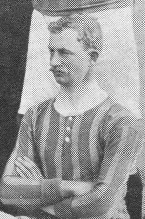 John Boag while with Brentford FC in 1904/05